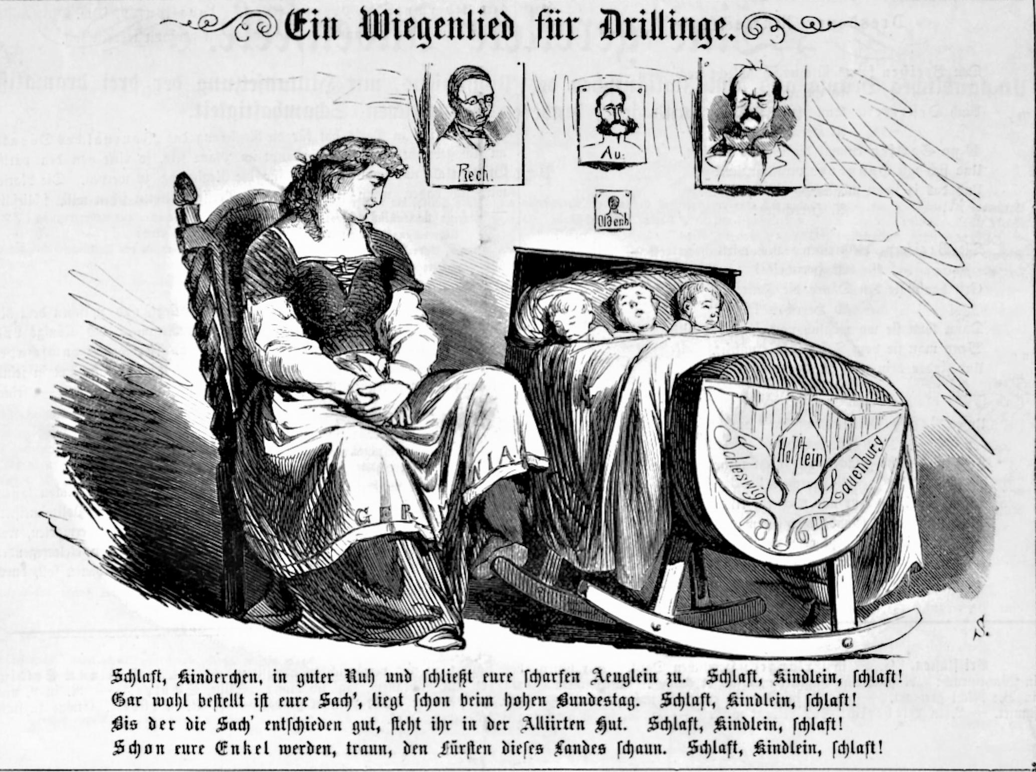 Karikatur, Kladderadatsch